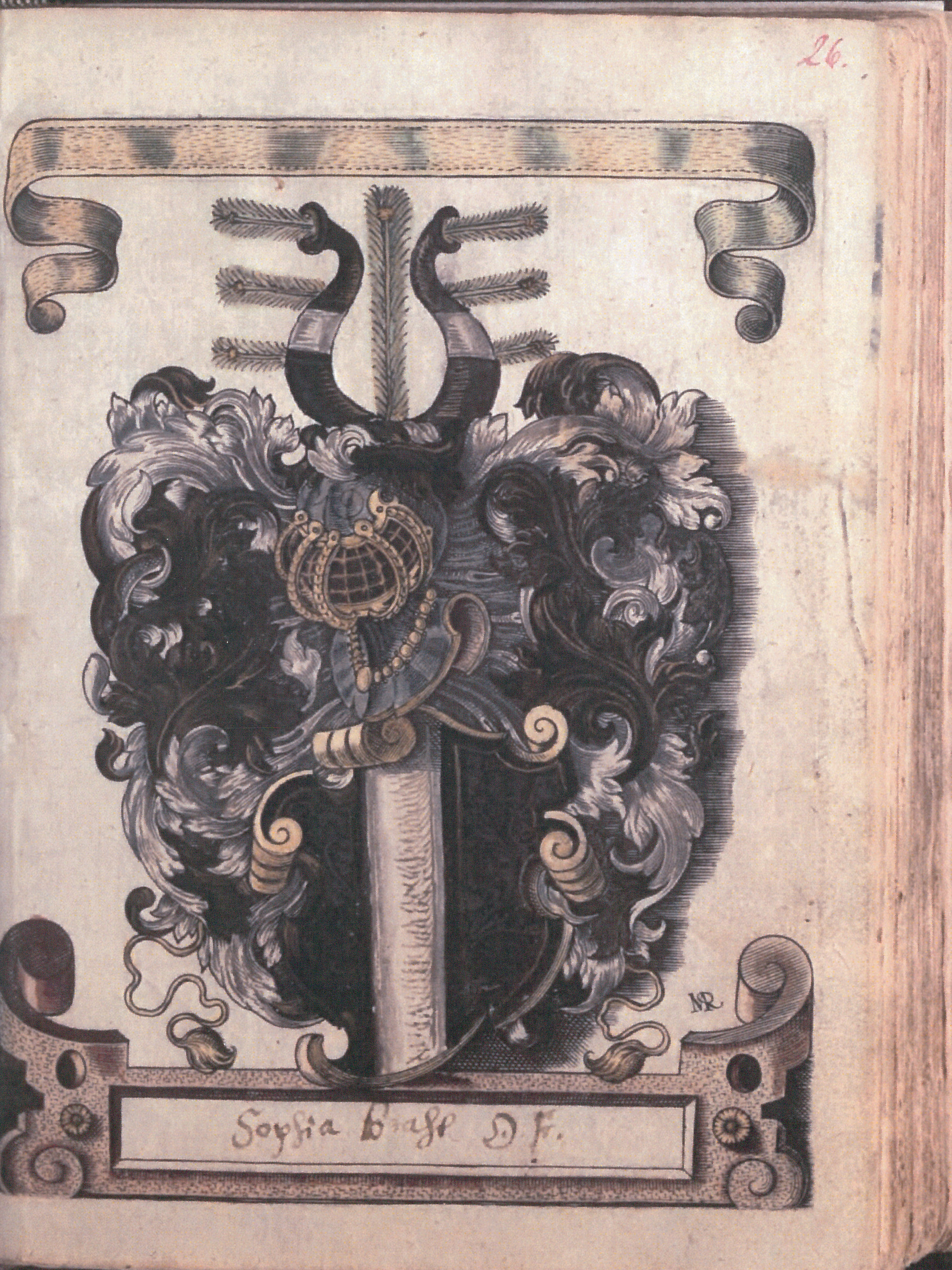 Album Amicorum